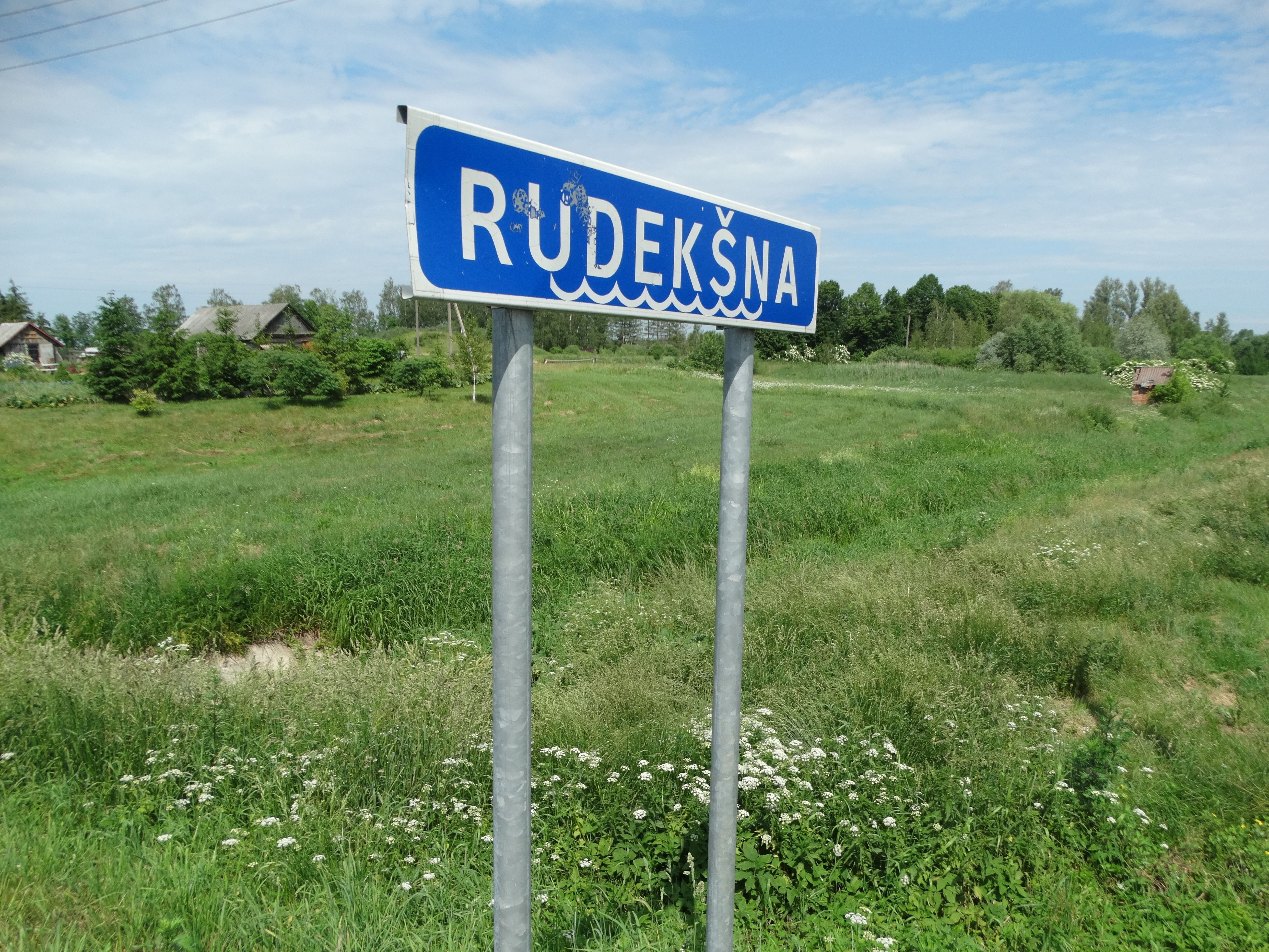 Rudekšna stream, Pagiriai, Kėdainiai district, Lithuania